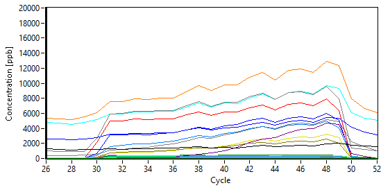 The concentration of several volatile compounds present in the headspace of a sample of kiwifruit monitored in real time using a PTR-TOF MS device (PTR-TOF 1000 Ultra, IONICON Analytik, Austria) with PTR-MS Viewer v. 3.2.3.0 software. Chemical Faculty, Gdansk University of Technology, Poland